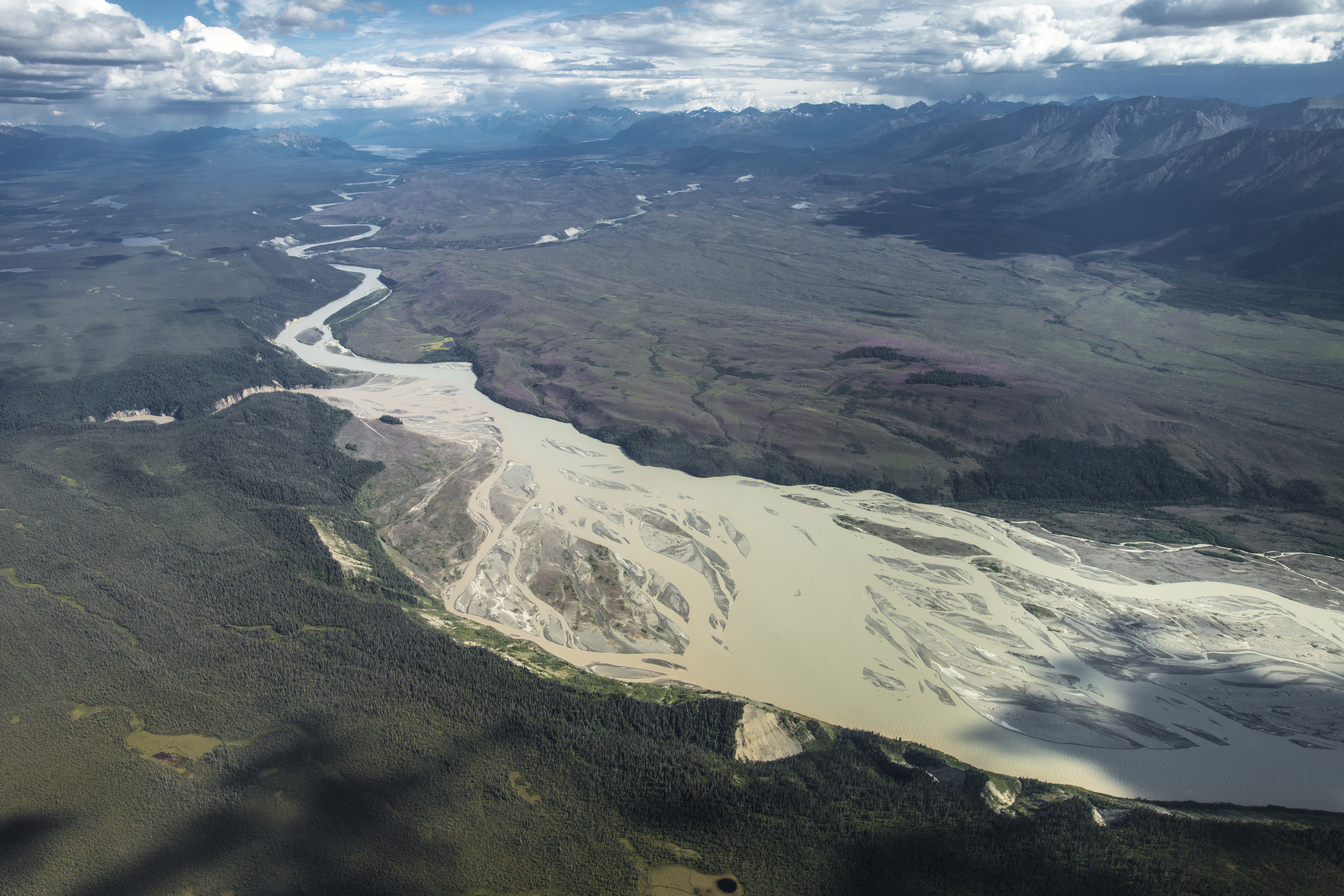 NPS / Jacob W. Frank Flight paths